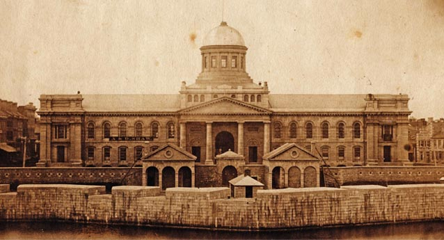 Kingston City Hall and the Market Battery, 1857, Kingston, Ontario, Canada. Kingston City Hall was completed in 1844, and the Market Battery was constructed in 1848 in the wake of the Oregon Boundary Crisis.